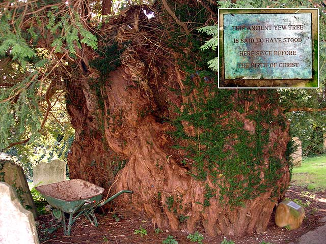 Ancient yew tree. in Ulcombe church yard 74189. The plaque on the stone to the right of the bole (inset) reads "This ancient yew tree is said to have stood here since before the birth of Christ". There are three other huge and ancient yew trees within the churchyard.